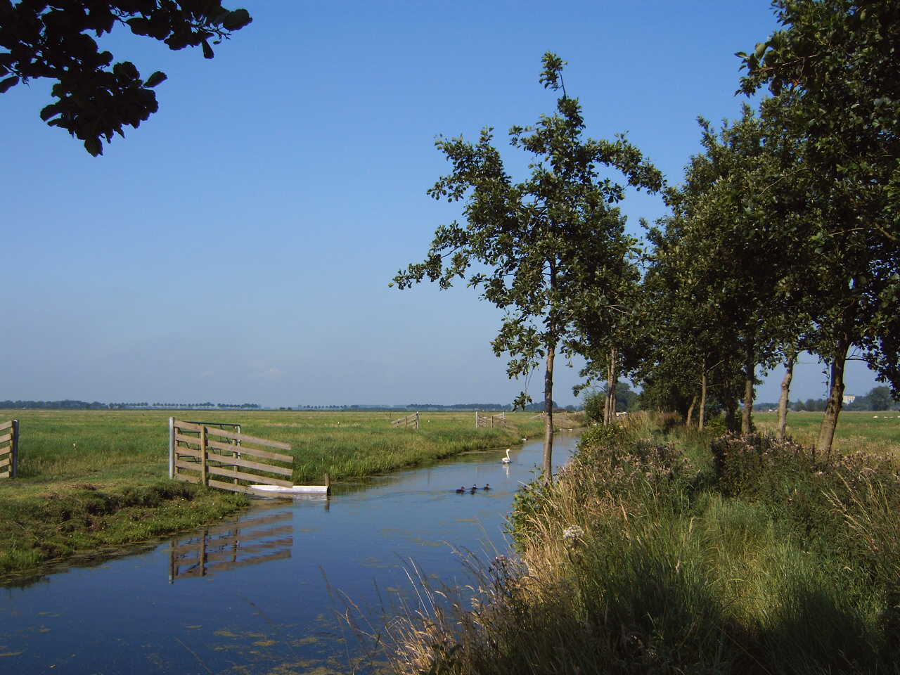 Tiendweg (ancient track for agrarian use) hiking trail west of Oudewater, the Netherlands, part of the Floris V hiking trail.